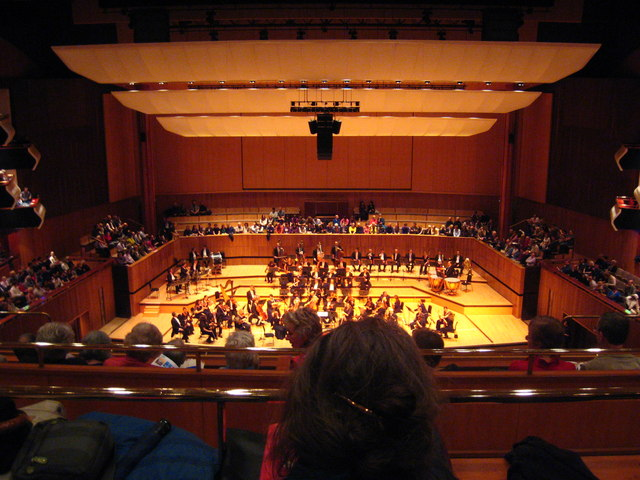 The concert hall at the Royal Festival Hall The Philharmonia Orchestra on stage ready for a concert of music by Elgar.